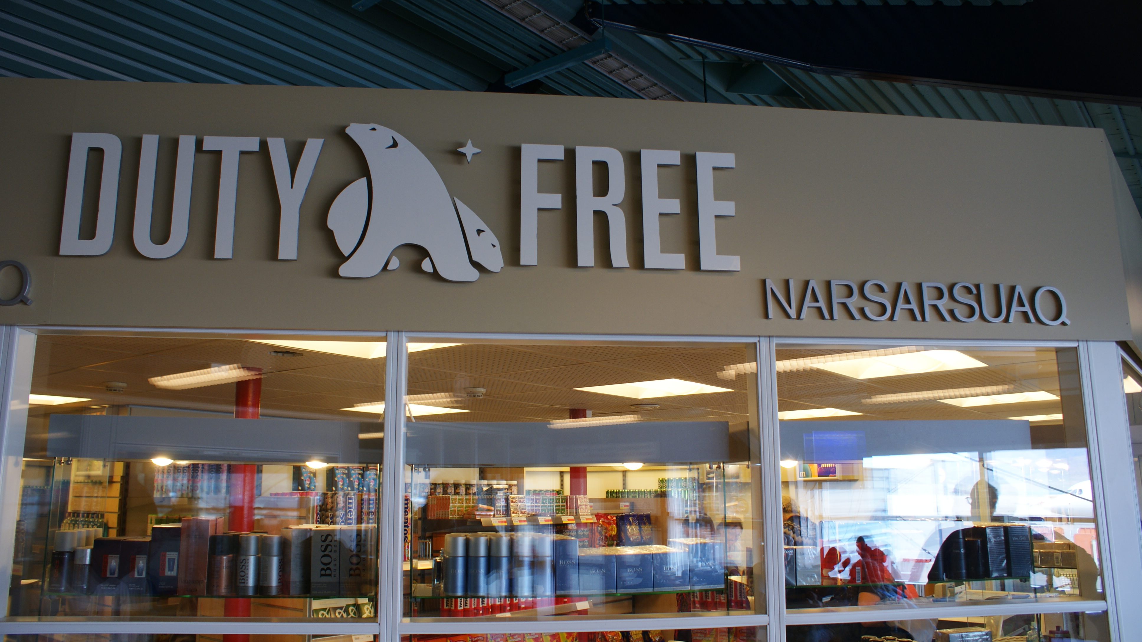 Narsarsuaq Airport, Greenland. Terminal, Nanoq Duty Free shop.